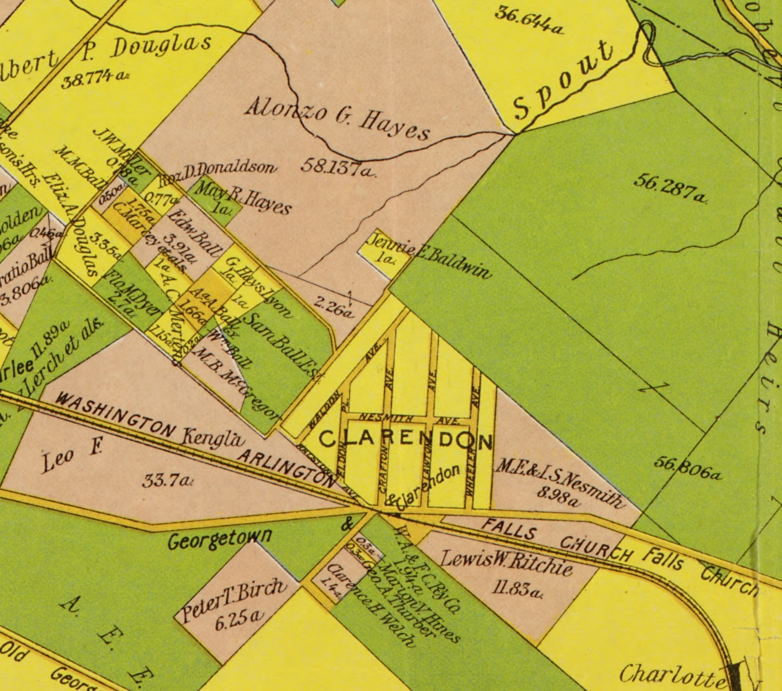 This is part of the Howell & Taylor map from 1900 of Arlington, Virginia. Original